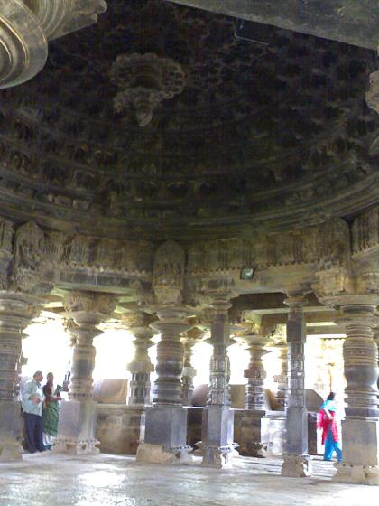 Hangal Sabha_mantapa at Tarateshwara Temple